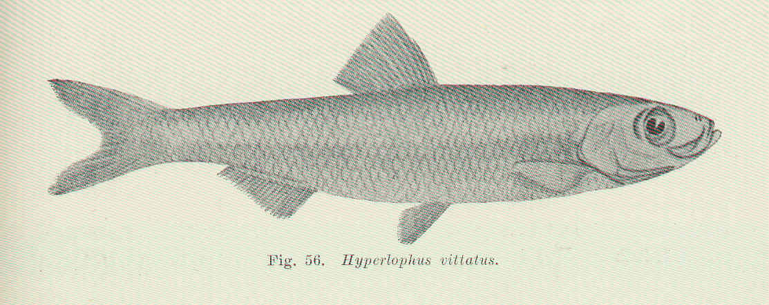 Hyperlophus vittatus Subject: Osteichthyes, Sprat Tag: Fish